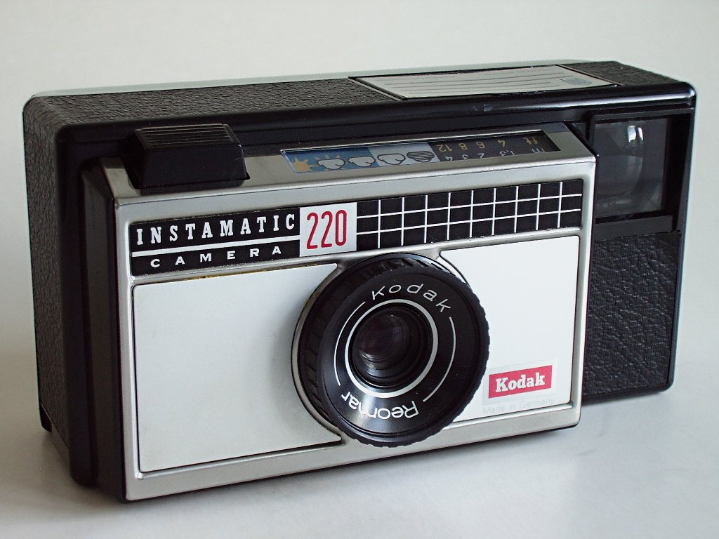 Kodak Instamatic 220 camera for 126 film. Made in the United States of America.